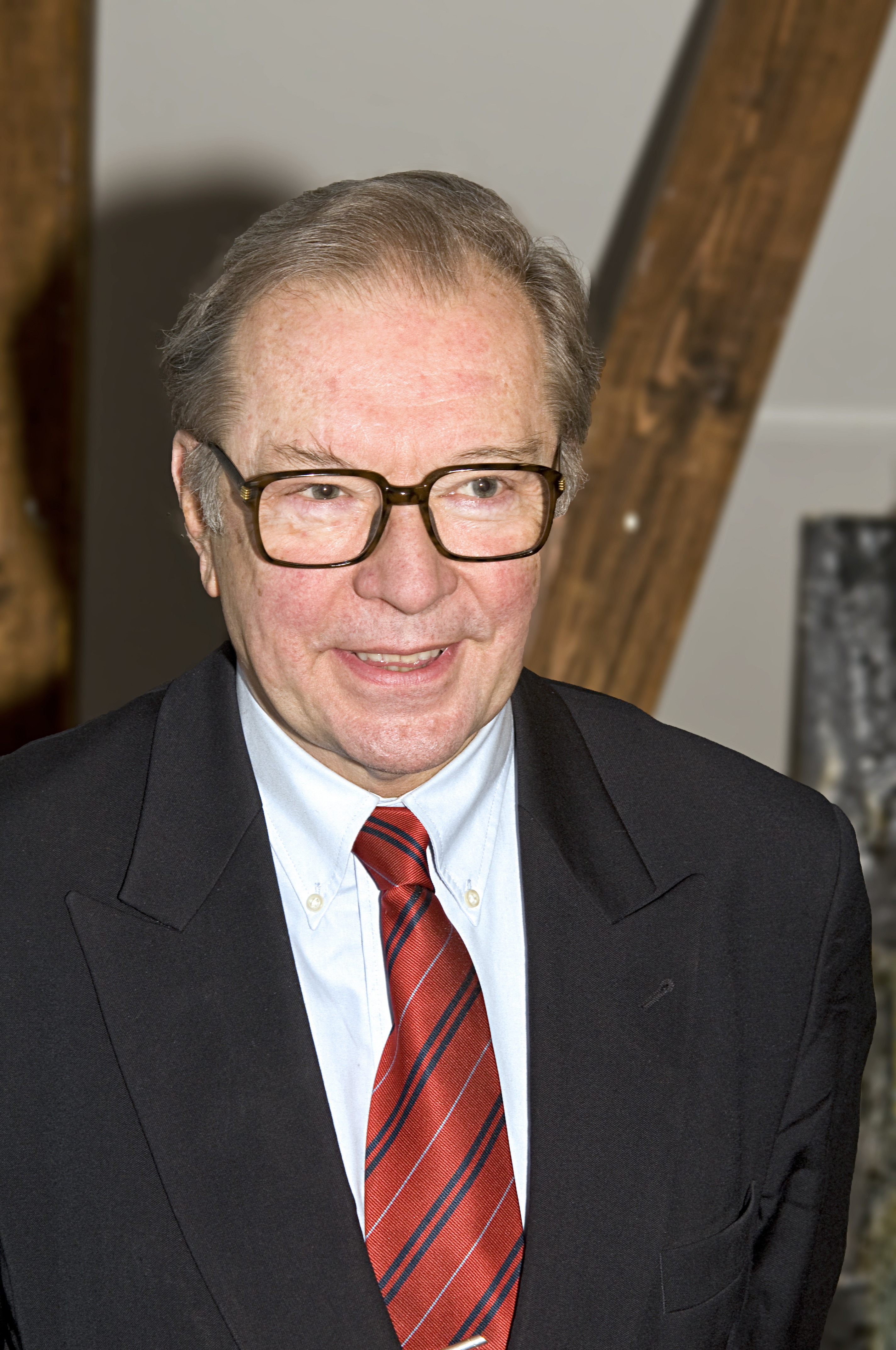 Krzysztof Zanussi on February 13, 2010 at Krakauer Turm in Nuremberg